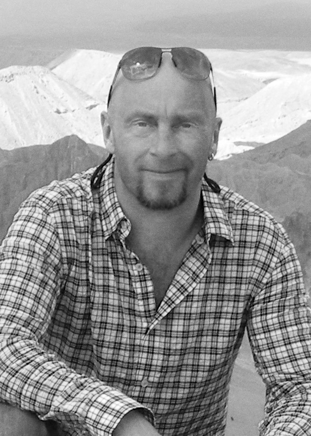 Jon Flemming Olsen, former member of the german country band "Texas Lightning". Musician, actor, author and graphic designer.